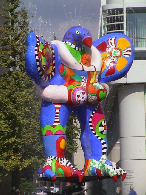 Lifesaver fountain by Niki de Saint Phalle in Duisburg, Germany.